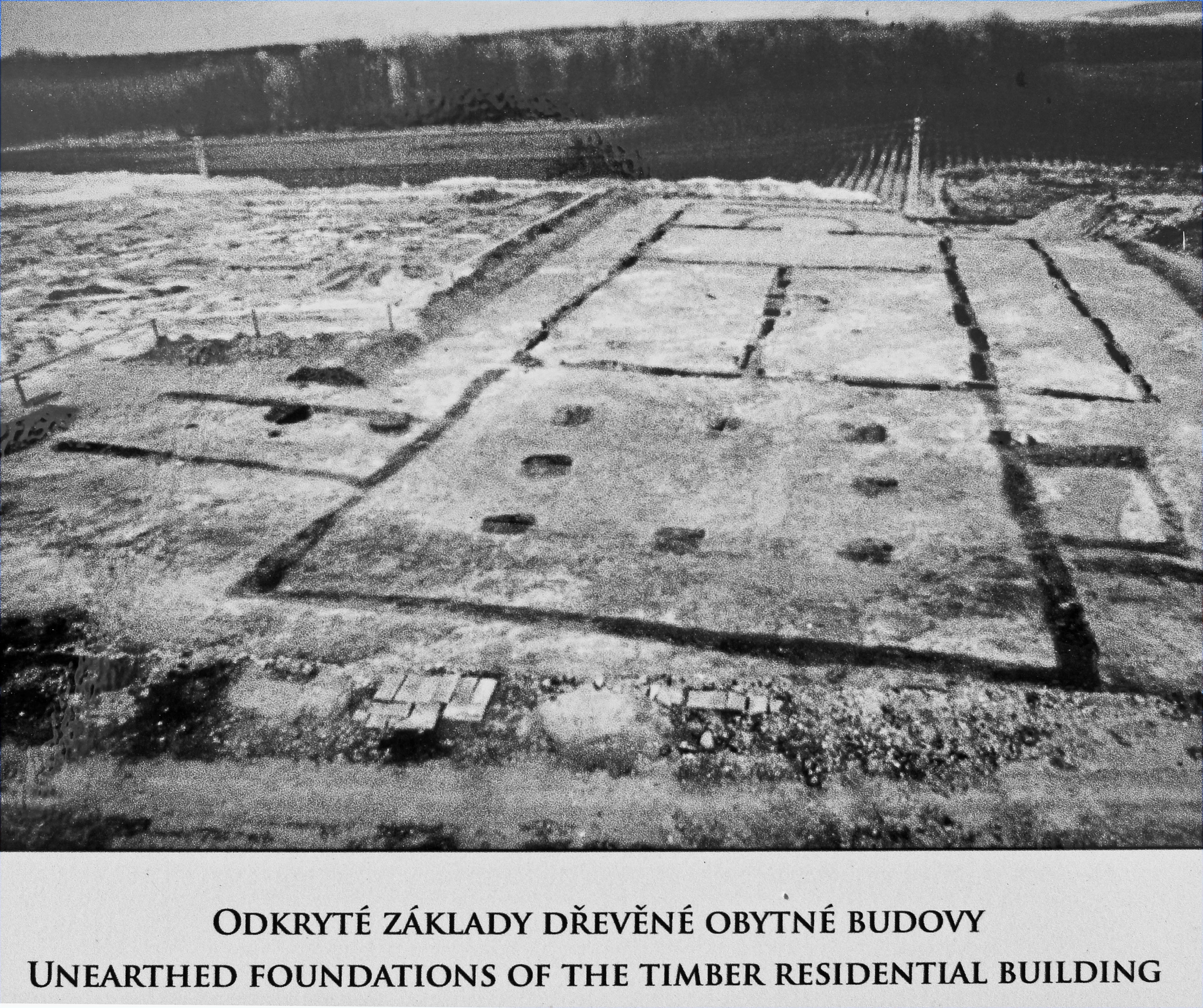 Mušov - Roman fortres (175-180 AC), view to excavation site. The public space info board - detail